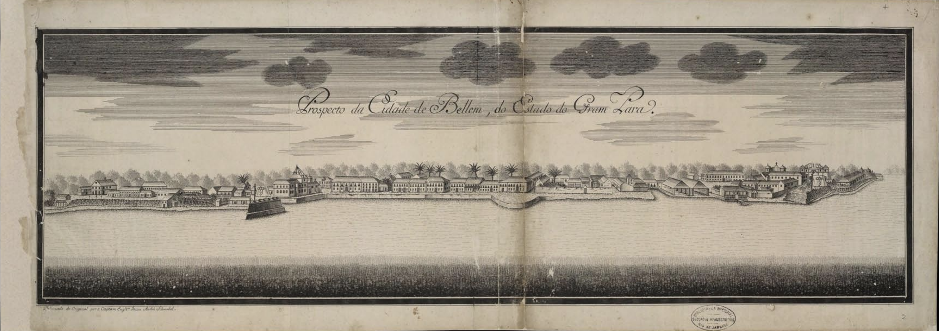 View of the city of Belém (Bellem), of the State of Gram Pará. Collection from the prospects of the villages, and more remarkable places that are found on the map that the engineers created on expedition starting from the city of Pará to the village of Mariua in the Rio Negro, 1756. Drawing in Indian ink by João André (Johann Andreas) Schwebel. He was a German military engineer and was hired by the Portuguese Crown to be part of the Commission of border demarcations in the northern region of Brazil according to the Treaty of Madrid (1750). The Portuguese commission stayed for five years conducting surveying and hydrographic services in this region. This view, together with the others in this group, constitute an iconographic collection of the region between Belém and Barcelos during the colonial period. Collection of the Biblioteca Nacional do Brasil.